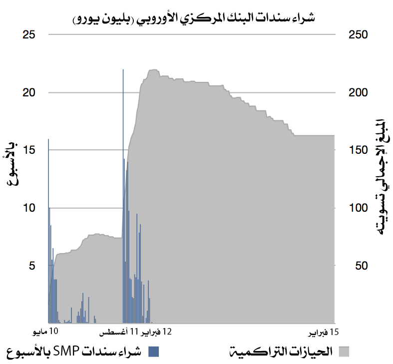 1=ECB Securities Markets Program (SMP) weekly bond purchases and total amount settled (May 2010 - February 2012)